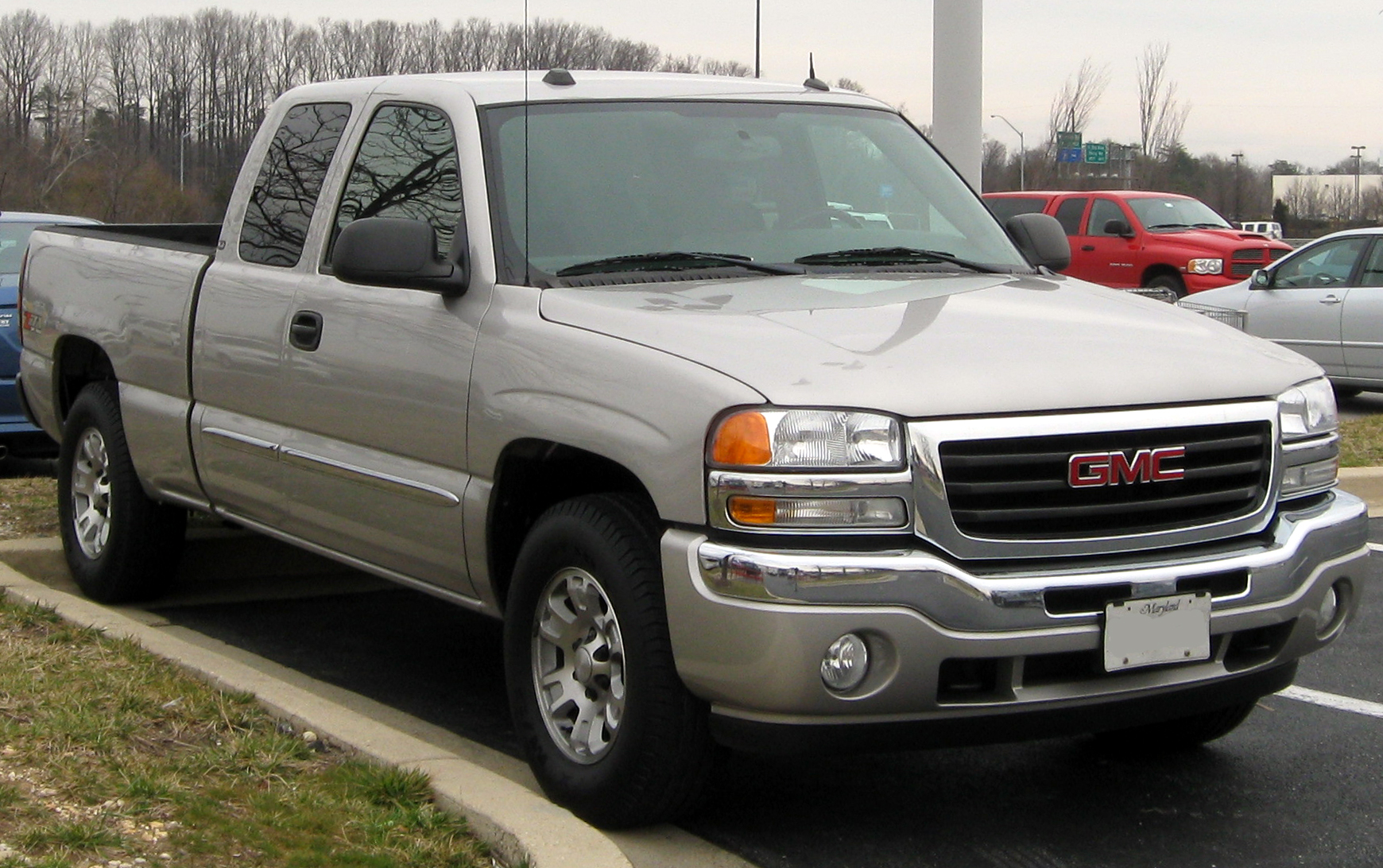 2003-2006 GMC Sierra photographed in Clinton, Maryland, USA.